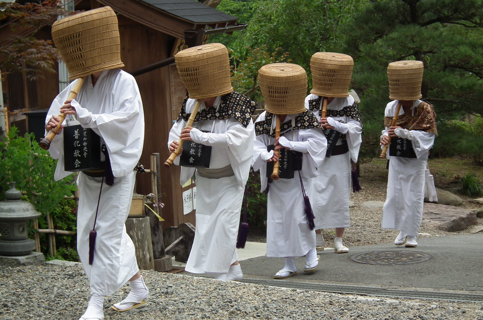 Daikokuji-Sasayama Komusō Shakuhachi